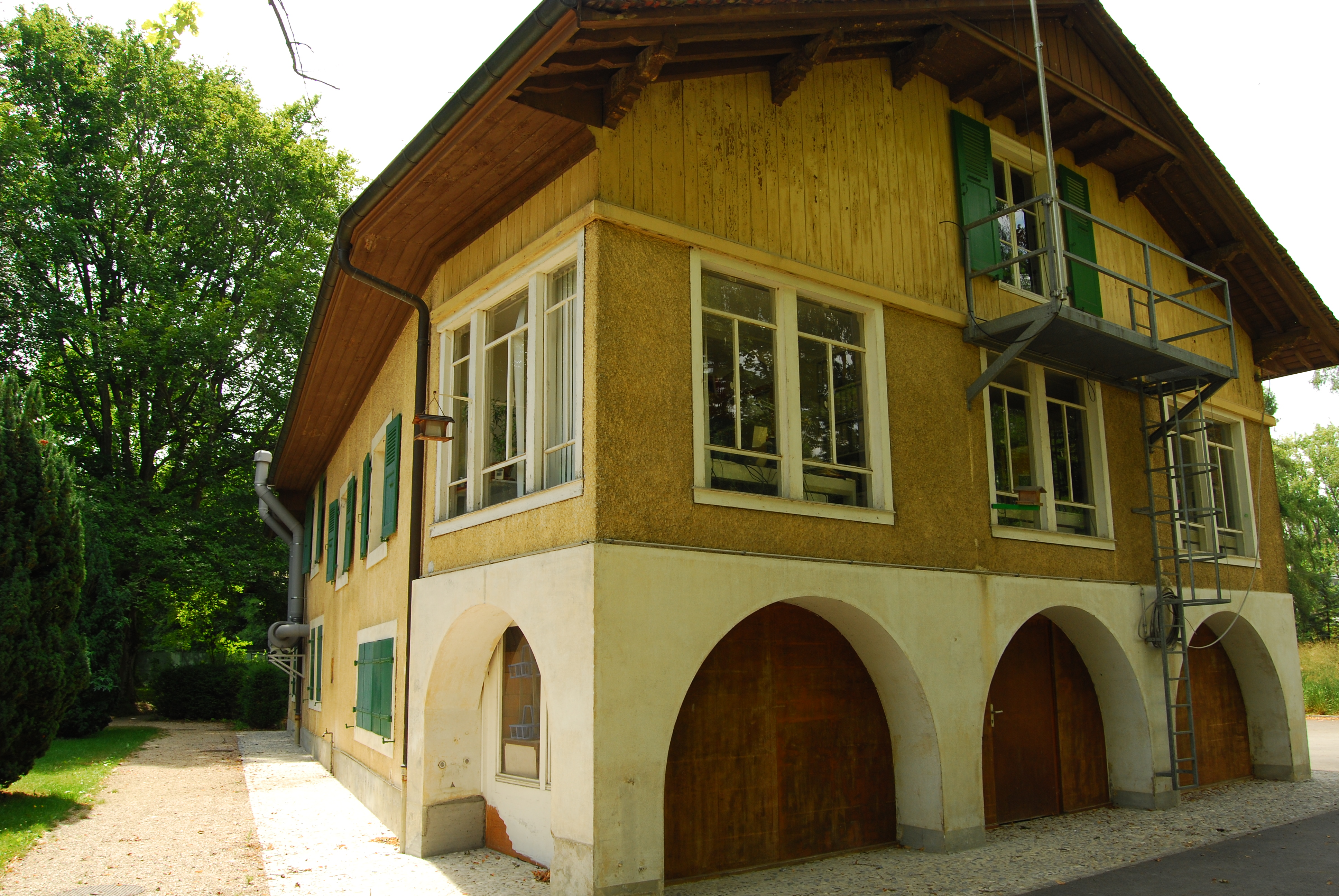 Park of the F.-A. Forel Insitute of the Univerxity of Geneva en Versoix, canton of Geneva, Switzerland